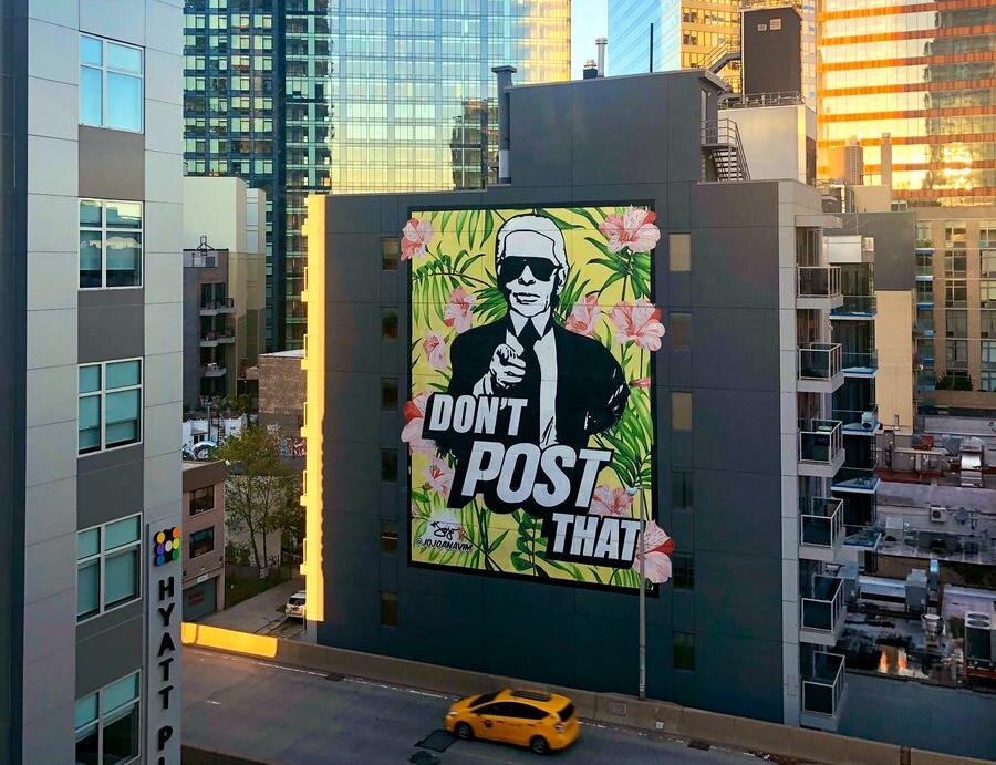 Photo of Jojo Anavim's artwork Don't Post That on Canvas luxury condo apartment building in Long Island City, NY.